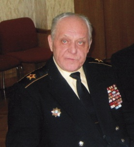 Ivan Matveyevich Kapitanec, Admiral of the Fleet (USSR, Russia)